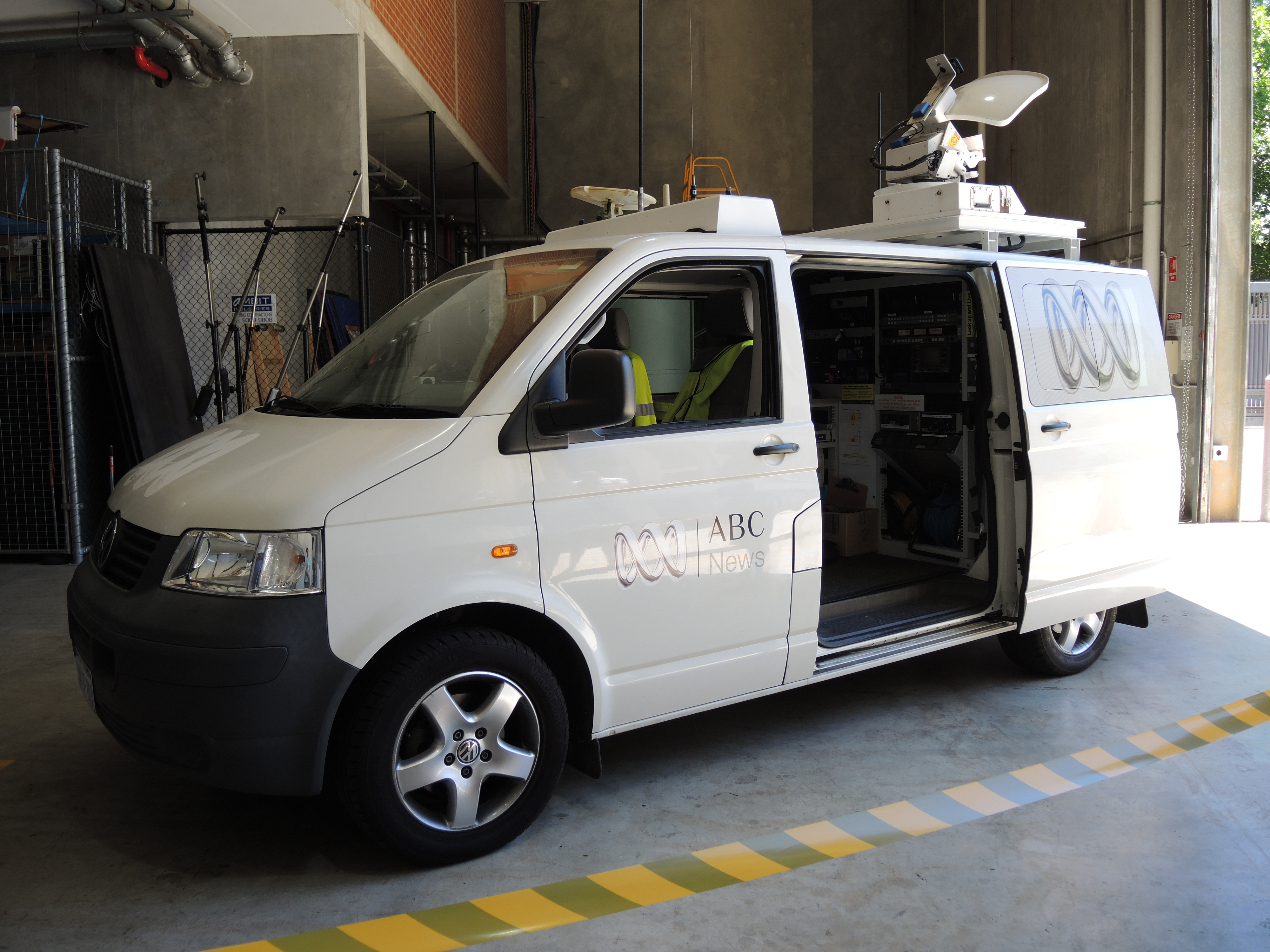 ABC Building Perth (photo taken at Open House Perth 2014 tour): Satellite Link Truck, used for outside broadcasts or live crosses